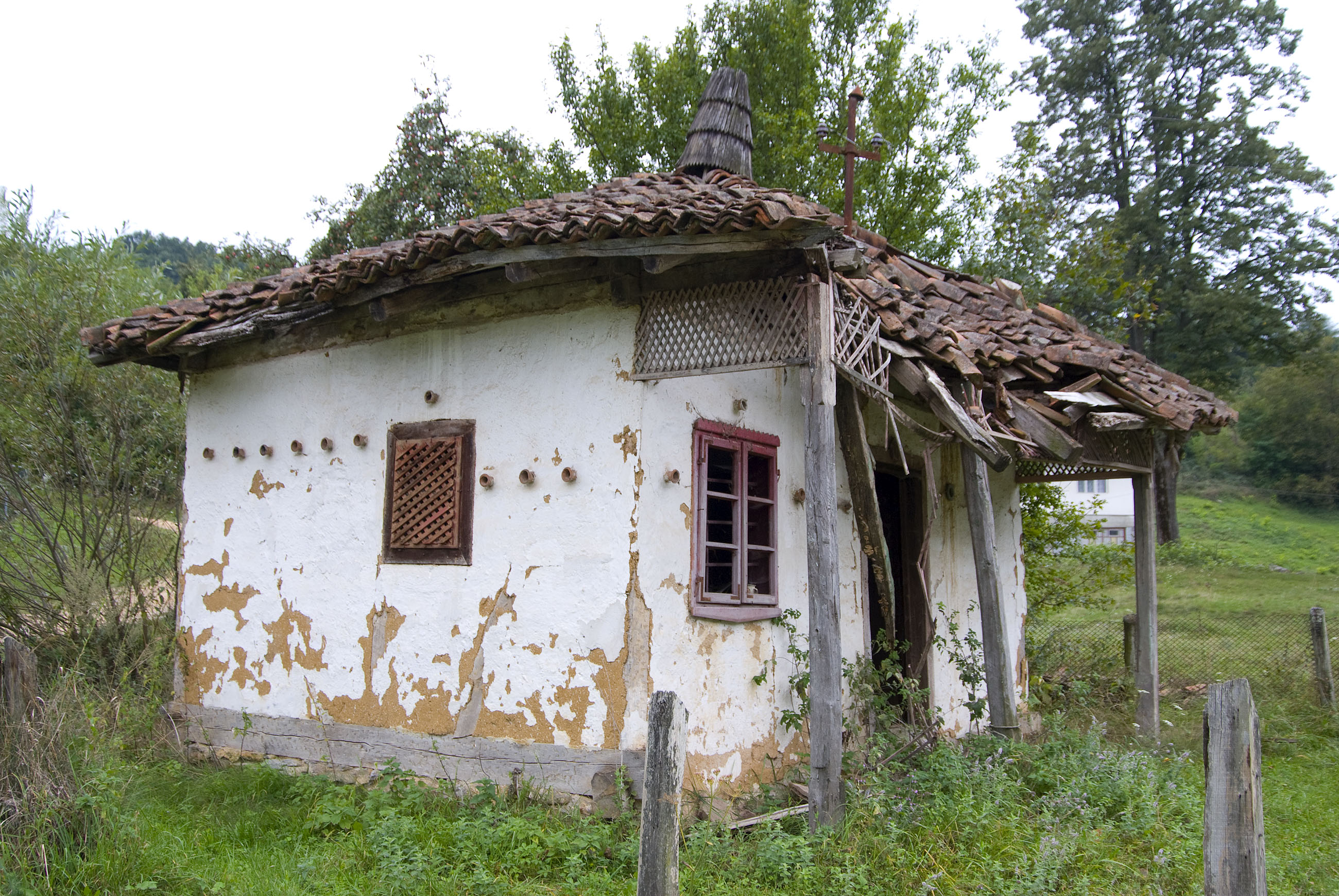 An old meeting building "sobrasnica", in Brezna village, central Serbia.